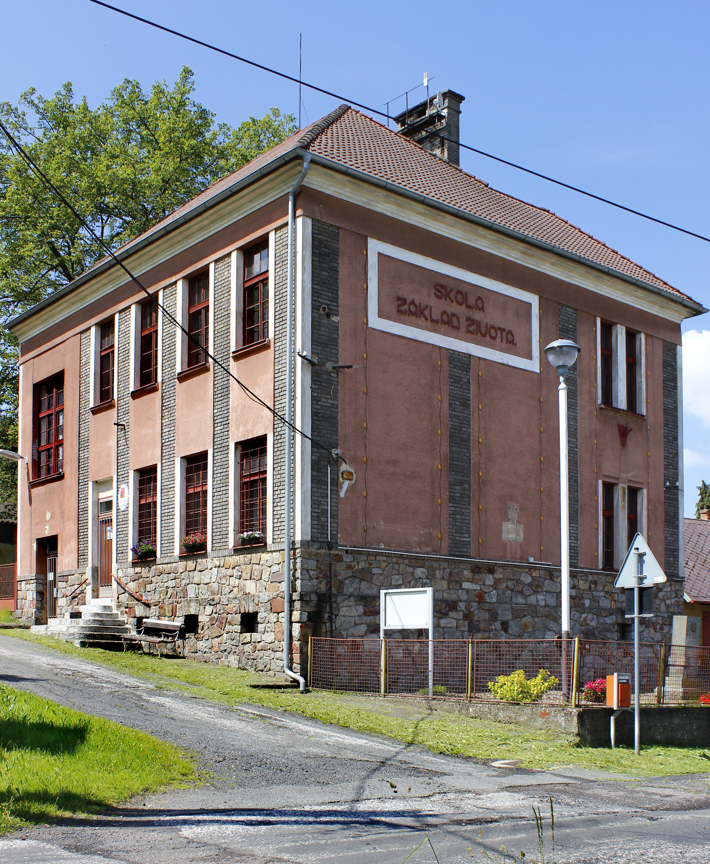 Municipal office in Malá Víska, Czech Republic